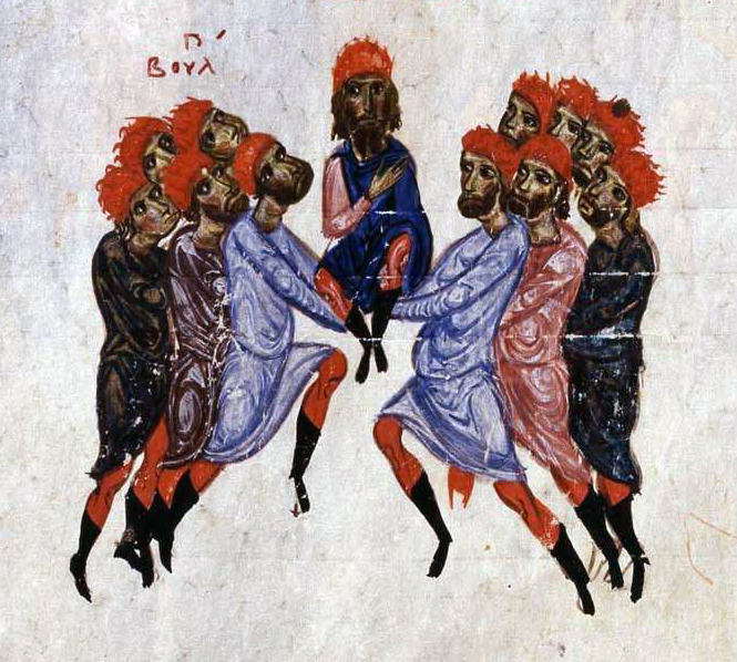 "...The uprising in Bulgaria also broke out the same year (1040) in the following way. A Bulgarian, Peter, surnamed Delyan, and servant of an inhabitant of Constantinople, fled from the capital and began to roam all over Bulgaria. He reached Morava and Belgrade fortresses in Pannonia, situated on the banks of the Isterus, close to the lands of the King of Turkia. He declared that he was the son of Roman, Samuil's son and incited the Bulgarians, who had recently put their necks under the yoke and were strongly striving towards freedom. And so the people believed his words and declared him Tsar of Bulgaria..." (Macedonia - Documents And Materials, I., 19. (html))